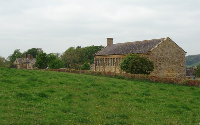 Hyde House "Real Tennis" Court The Hyde House Tennis Court was built for Joseph Gundry in 1885 from beautiful Dorset ham stone in order to entertain the Prince of Wales who was a Real Tennis fanatic. The Court was used until the First World War, since then it has been used for a vehicle repair shed as well as an agricultural building. The grandson of the original owner died in 1995, leaving the Court in his Will to the Bridport and West Dorset Sports Trust Ltd, which is a registered Charity and runs the existing Leisure Centre in Bridport.It has now been restored to its former glory. Hyde house is visible on the left.